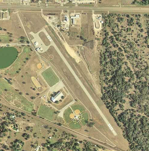 USGS digital orthophoto of Cuero Municipal Airport in Texas